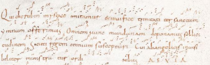 Cherouvikon of the Divine Liturgy, translated into Latin and transcribed into Western neumes (10th century), copied by the scribe Ruotbert in his anthology dedicated to Boethius.